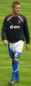 Ian Miller. Image cropped from original at flickr.